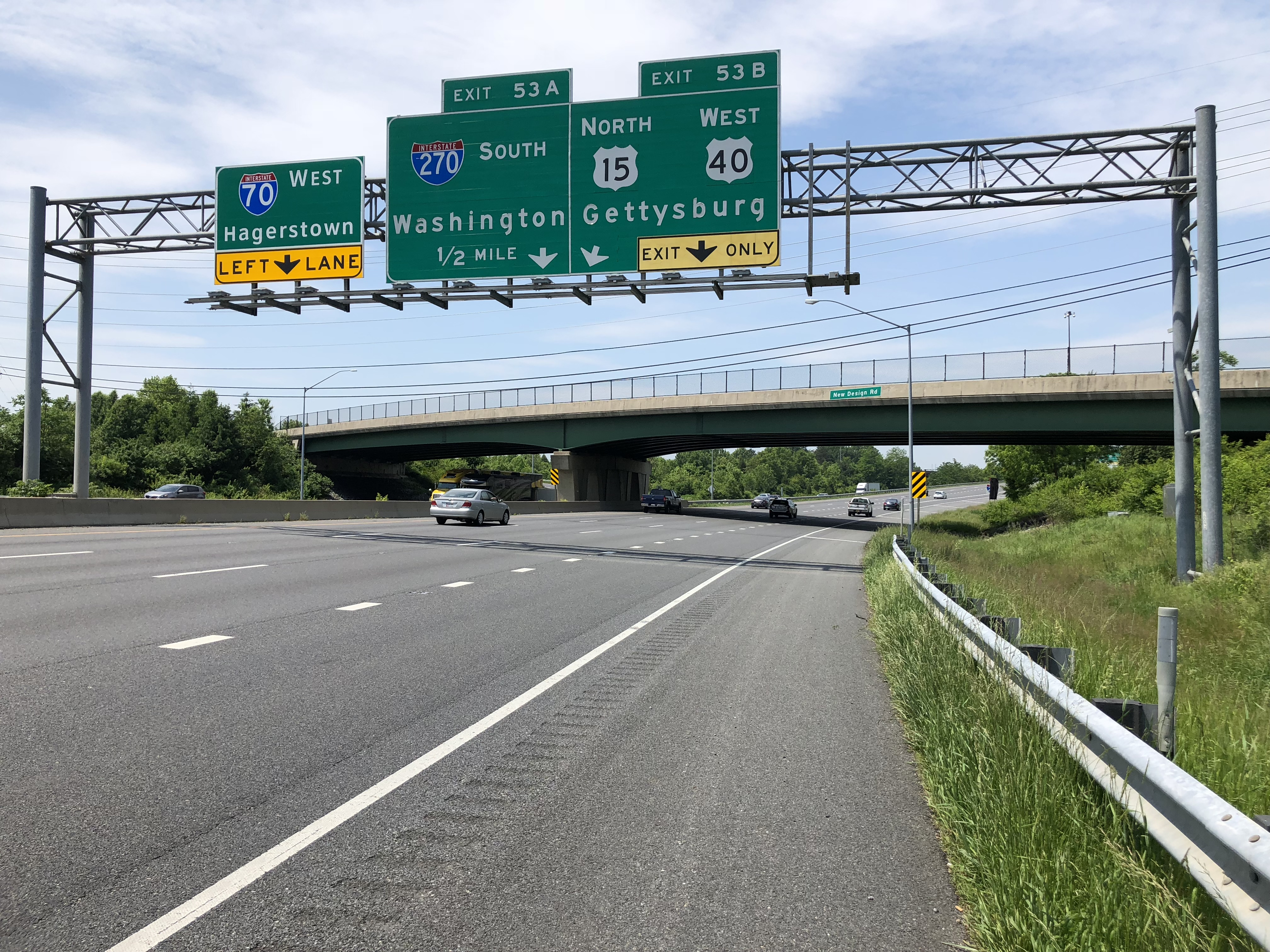 View west along Interstate 70 and U.S. Route 40 (Baltimore National Pike) at Exit 53B (NORTH U.S. Route 15, WEST U.S. Route 40, Gettysburg) in Ballenger Creek, Frederick County, Maryland